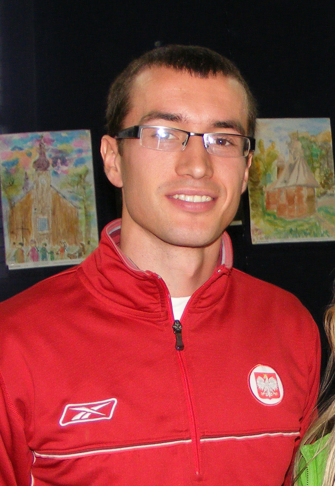 Piotr Kędzia, polish athlete (sprinter, 400 m)